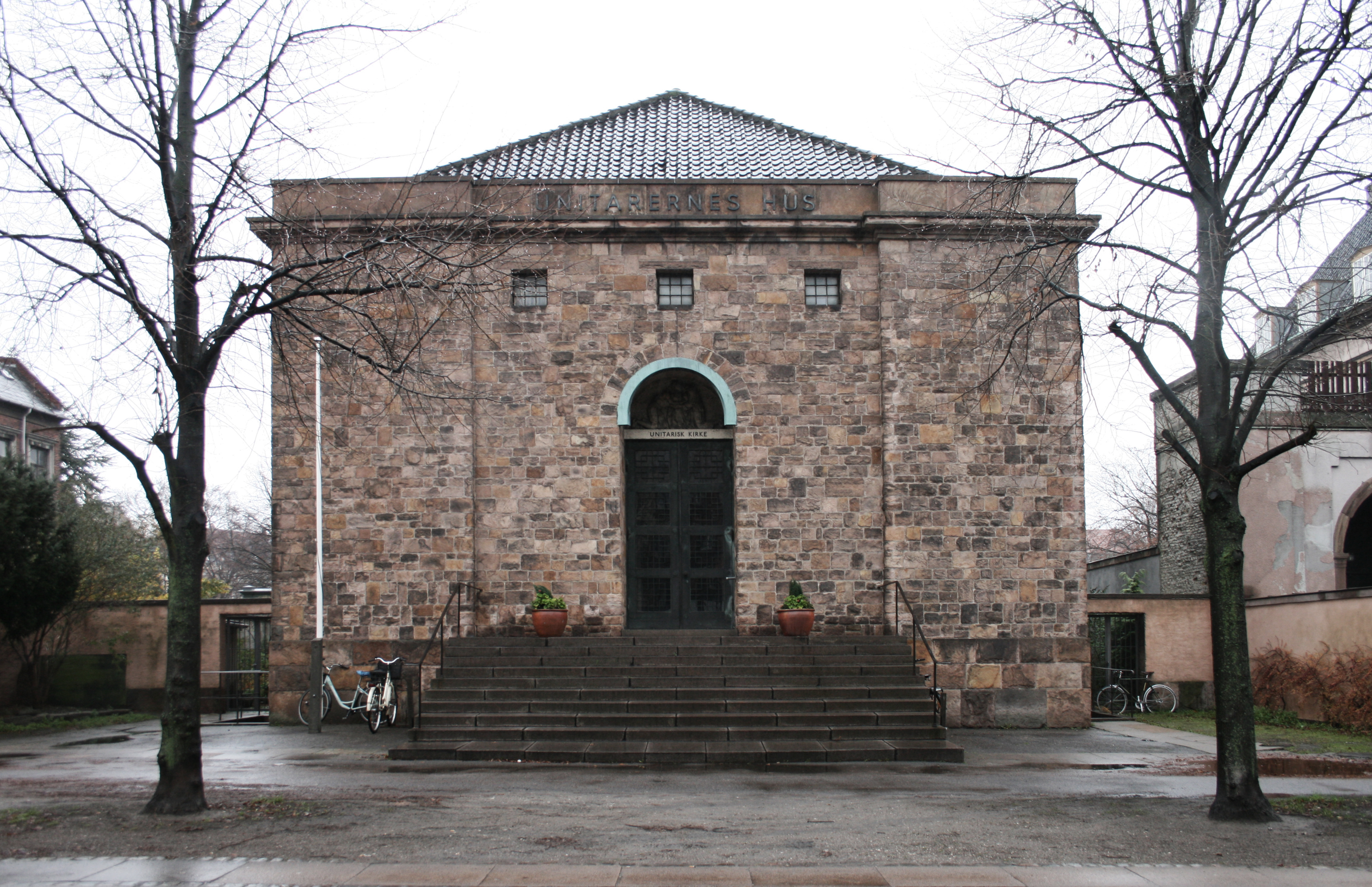 Unitarian Chapel, Copenhagen. Designed by Carl Brummer and completed in 1927.